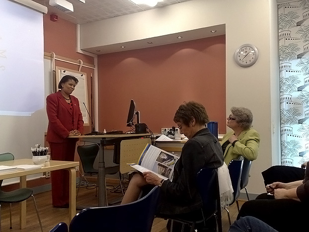 President för IFLA.